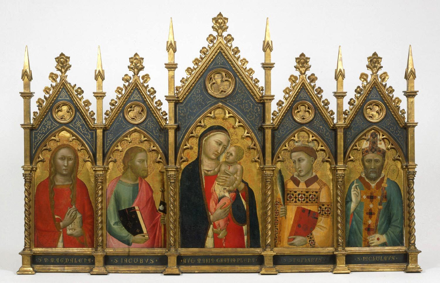 Allegretto Nuzi. Virgin and Child, with Saints Mary Magdalene, James Major, Stephen, and a Bishop Saint. ca. 1346, Philadelphia Museum of Art.